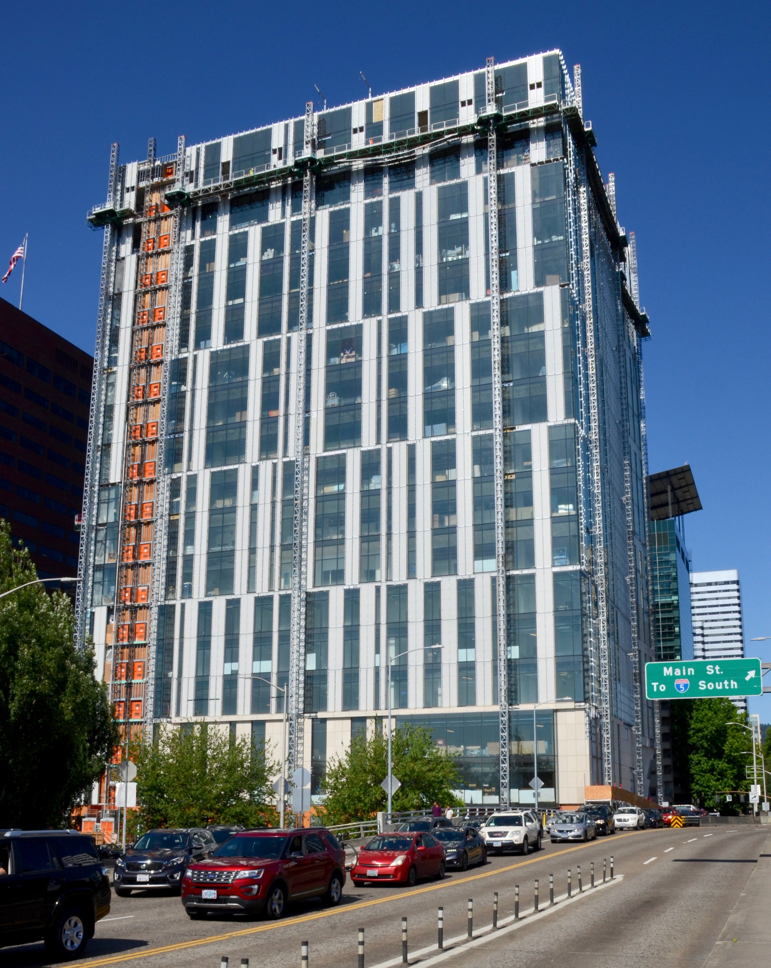 The new Multnomah County Central Courthouse (in Portland, Oregon) under construction in July 2019. This view is from the east, from the north sidewalk of the Hawthorne Bridge, and the cars in the foreground are waiting the bridge to reopen to traffic following a raising of the bridge's lift span.